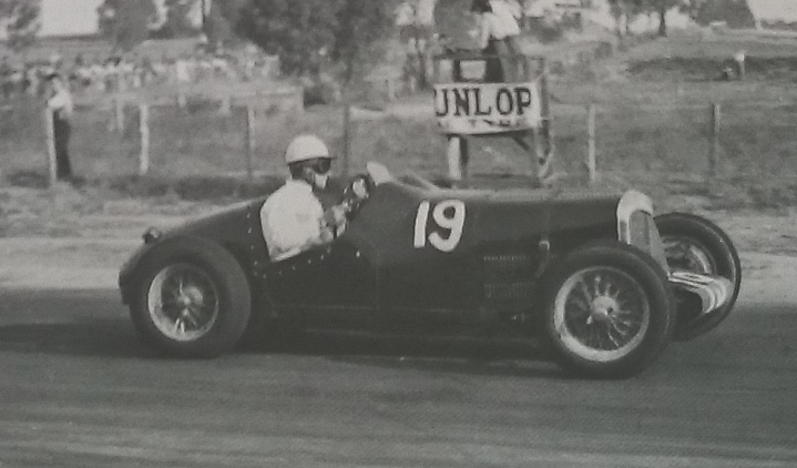 The Rizzo Riley of Arthur Rizzo contesting the All Power Long Handicap at the Mount Panorama Circuit, Bathurst, New South Wales, Australia on 18 April 1949. Rizzo was the race winner.